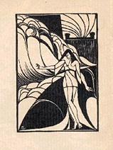 Illustration by Bernard Essers, from the book Deirdre en de zonen van Usnach (1920) by Adriaan Roland Holst